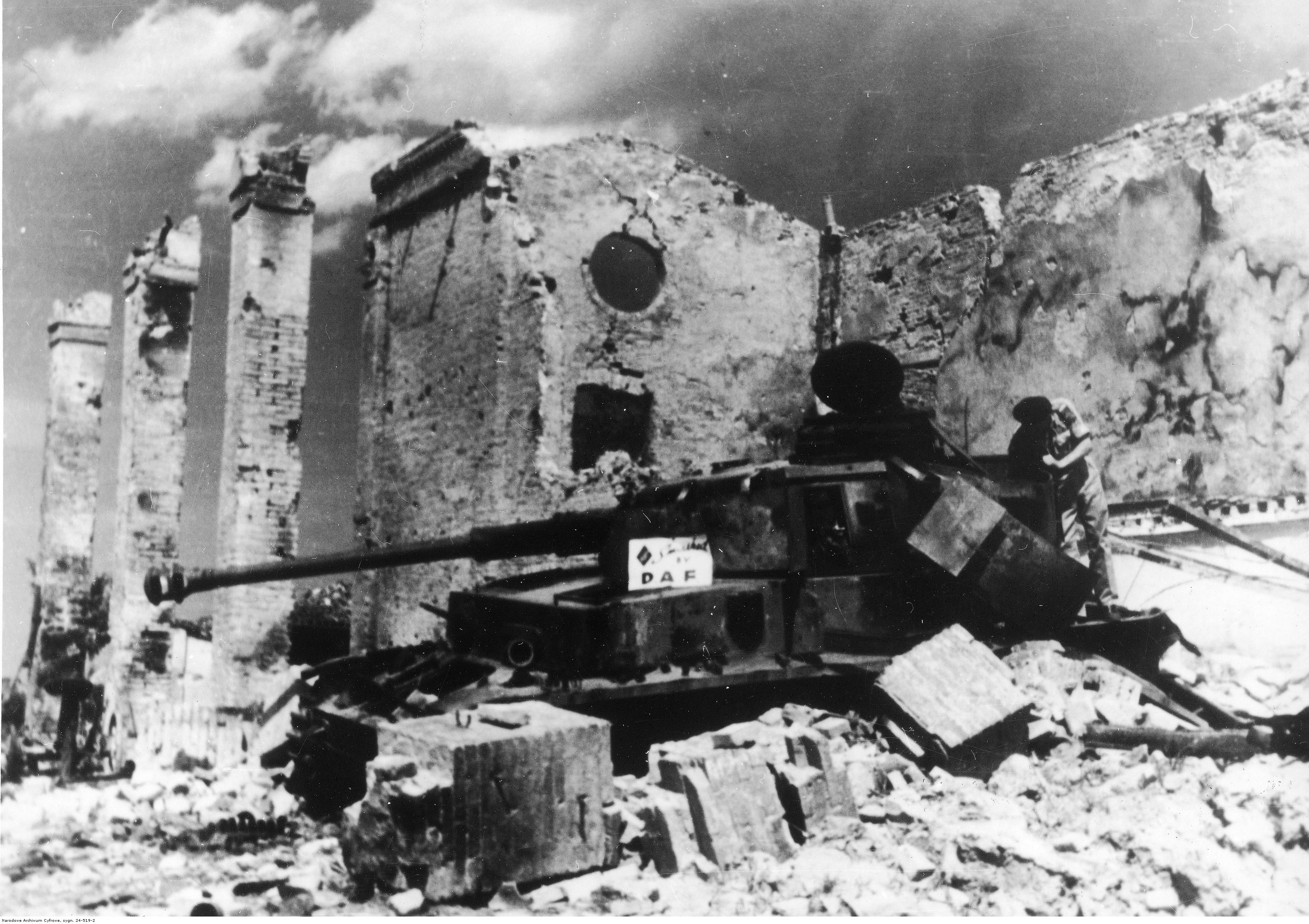 War damage after the Italian campaign. PzKpfw IV tank destroyed by the 4th "Skorpion" armored regiment among the ruins of buildings. Tadeusz Szumański Photographic Archive. Signature: 24-519-2